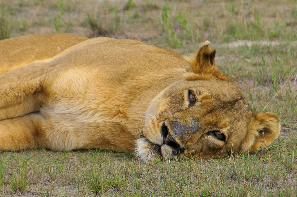 Lady Liuwa, Liuwa Plain National Park, November 2012.jpg